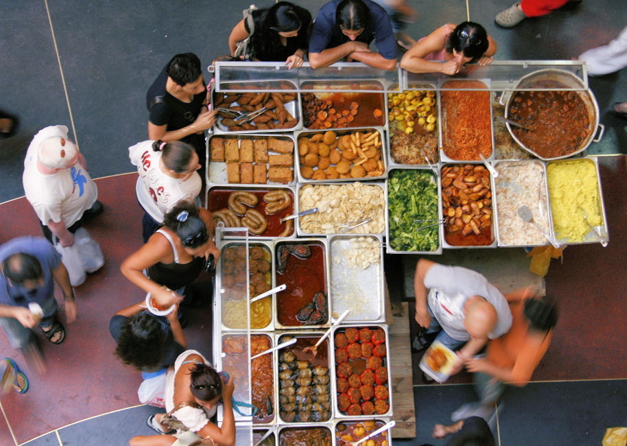 Dizingof center friday's food market